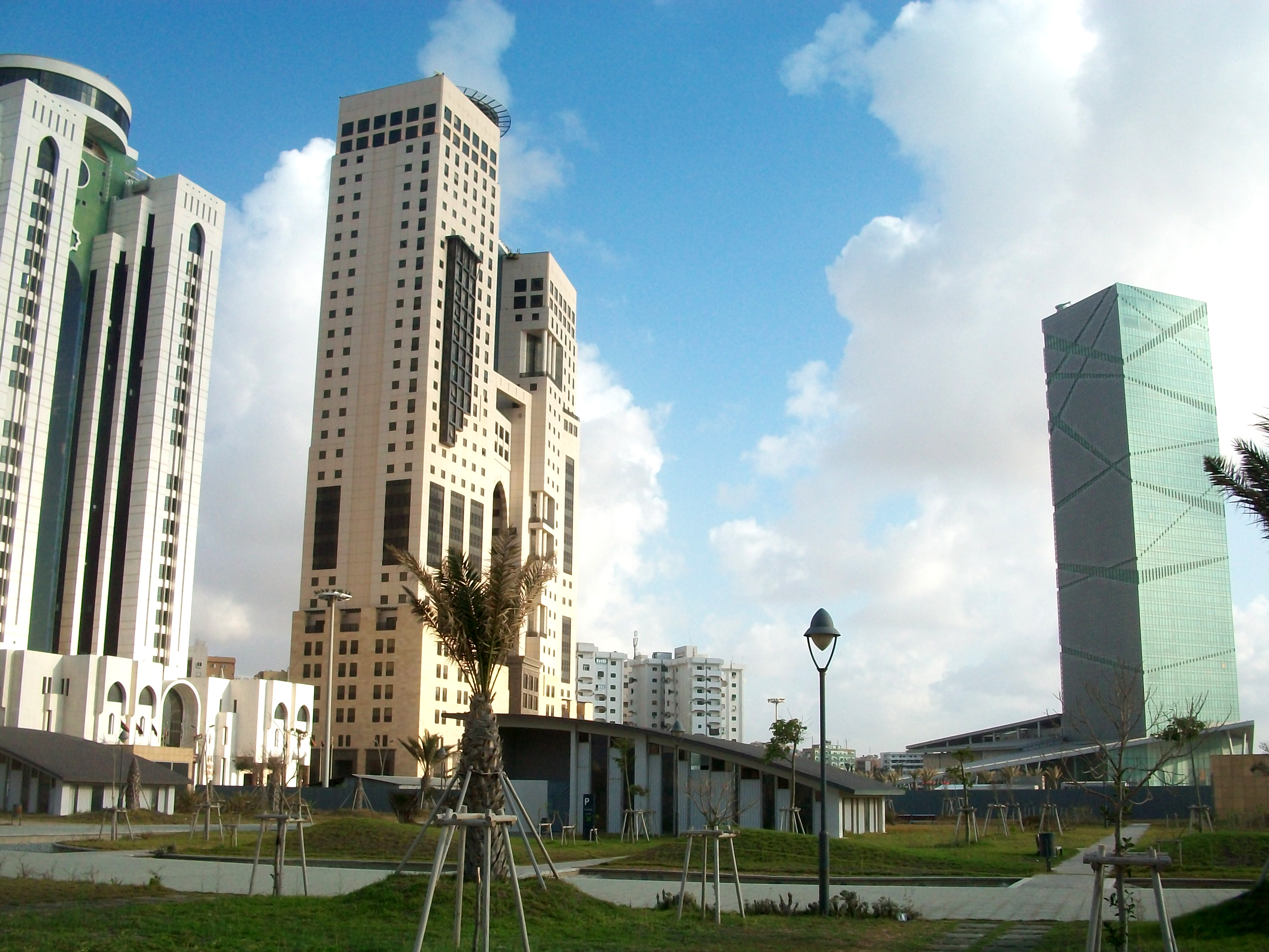 The Central Business District of Libya's capital Tripoli as viewed from the Oea Park and Car Park.